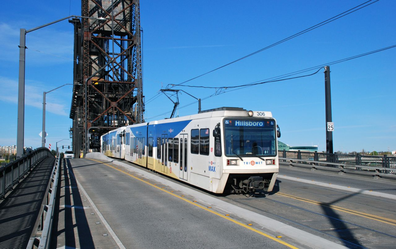 A westbound two-car train on Portland's MAX light rail system crossing the 1912-built Steel Bridge. Headed for Hillsboro on TriMet's MAX Blue Line, the train is composed of cars 306 + 307 (of TriMet's "Type 3"), which are Siemens SD660 light rail vehicles built in 2003. The Steel Bridge is the only vertical-lift bridge (type with towers and counterweights) crossed by light rail or streetcars in North America. For 20 years, from the completion of the first MAX line in 1986 until 2006, it was the only drawbridge (moveable bridge) of any type to carry that distinction in North America – since at least the early 1970s. However, in 2006 it was joined by two bascule bridges on San Francisco's T (Third St.) line, and in 2012 by another Portland bridge, the Broadway Bridge (also a bascule type), crossed by the Portland Streetcar's CL Line, then in 2018 by the St. Paul Avenue Bridge (a table-lift bridge) on Milwaukee's The Hop streetcar line.